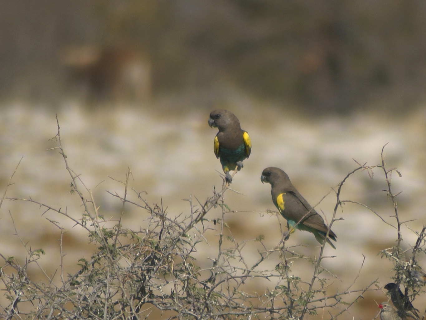 Meyer's Parrots at Kalkheuwel waterhole, Etosha, Namibia